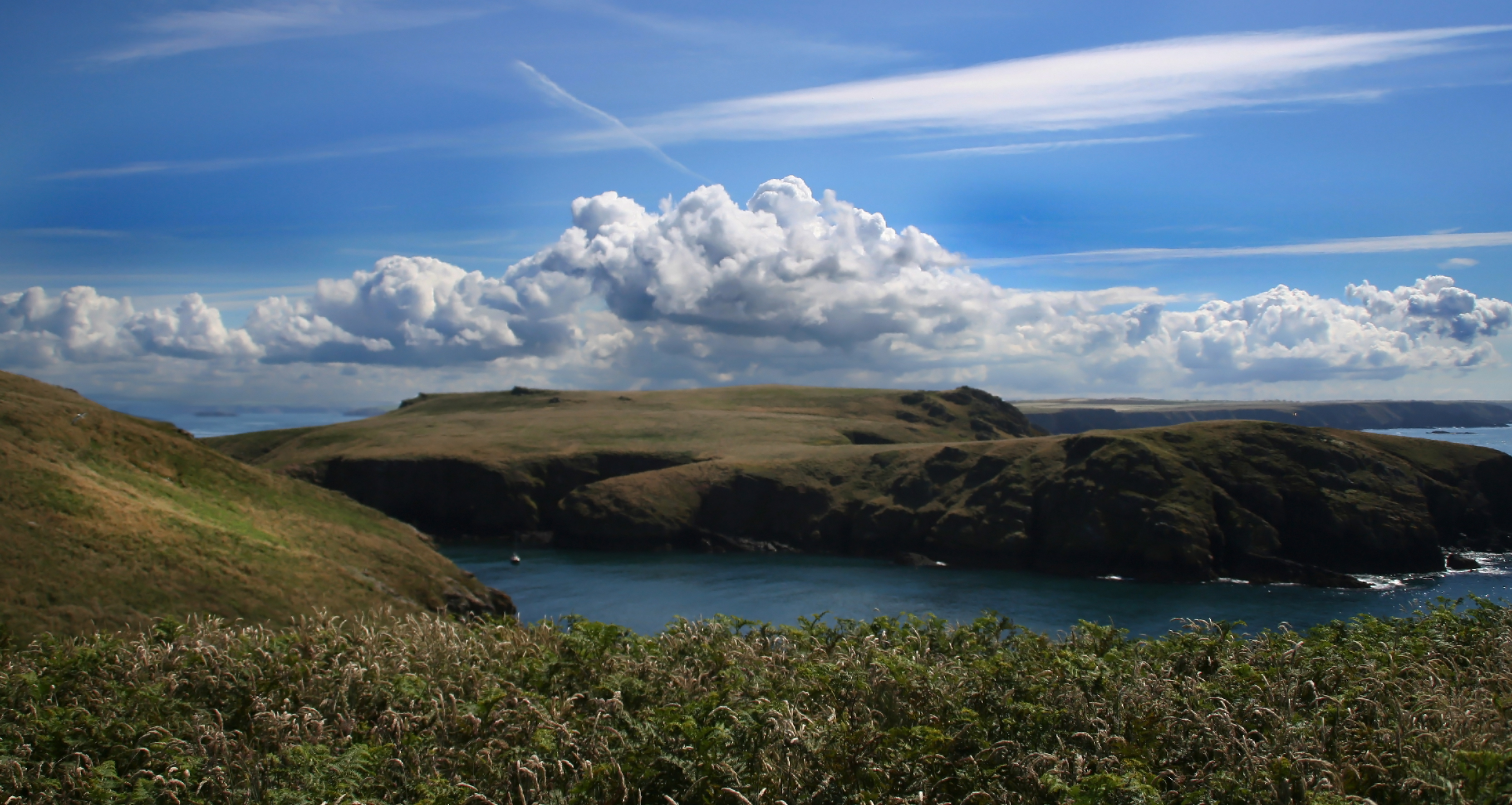 A view over part of Skomer Island. A haven for wild puffins, shearwaters, seals and occasionally whales, in Pembrokeshire, South Wales, UK